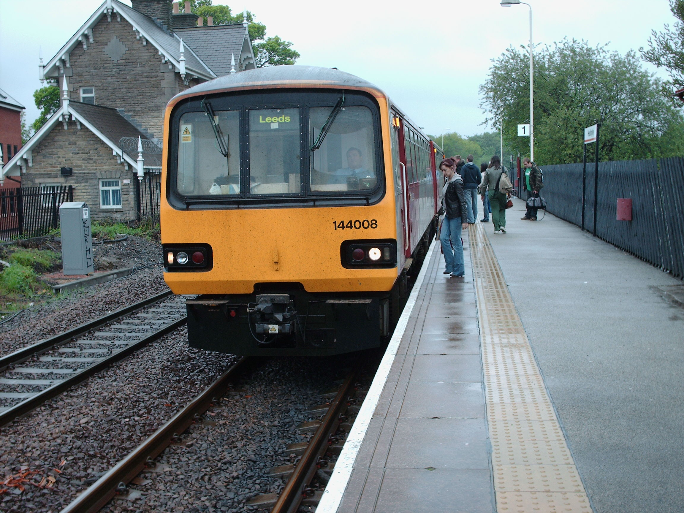 Railway train, 144008 at Headingley Station, England, 13 May 2006